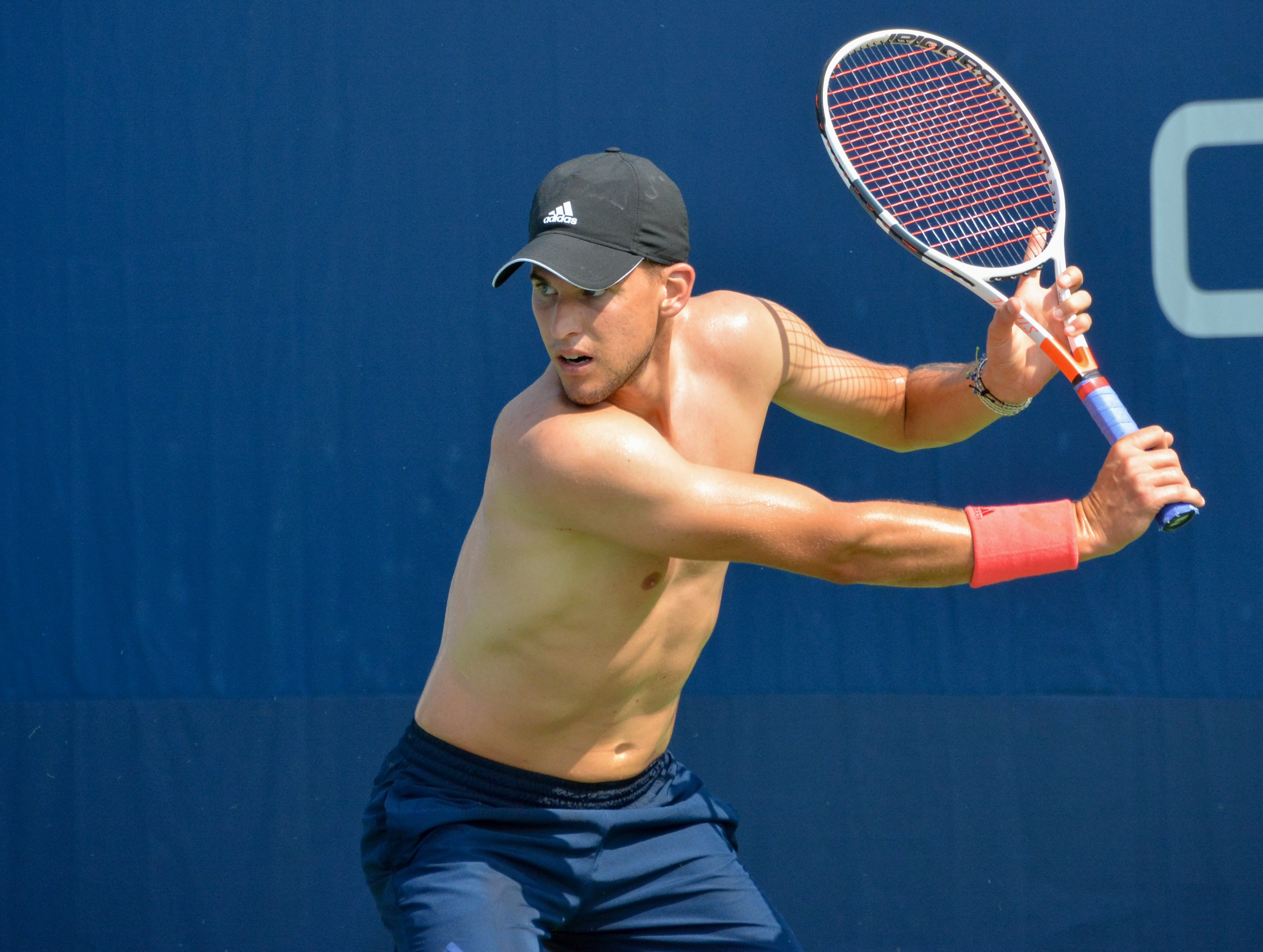 Practice Sunday at the US Open 2018.